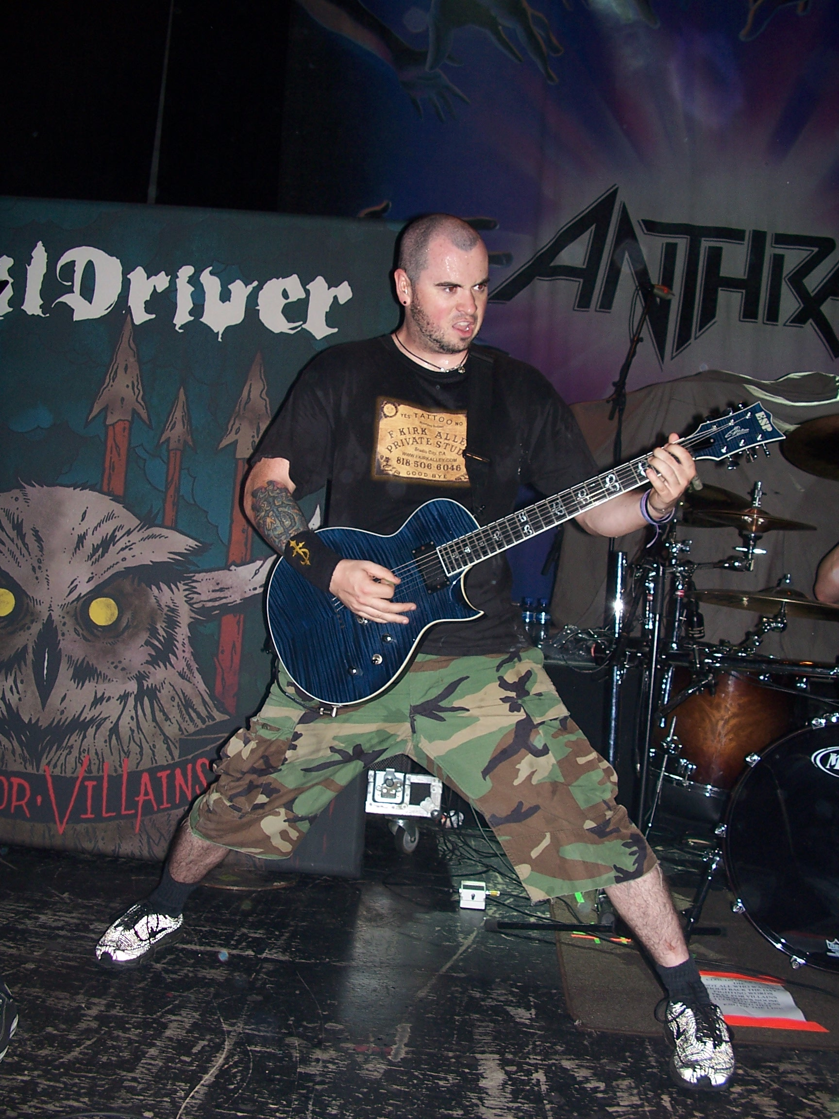 The American death metalband "DevilDriver" performing in Paard van Troje, The Hague, The Netherlands on 2009-06-30.